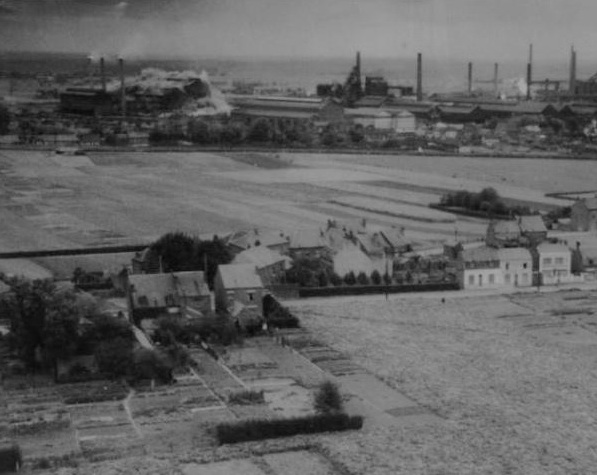 Approach to Eindhoven as seen from a Boston bomber during Operation Oyster